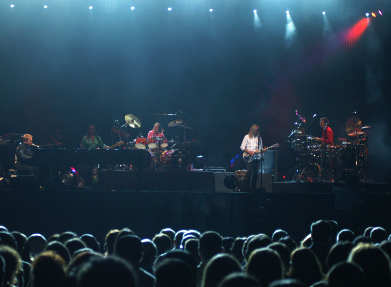 Concert of Elton John in Baku